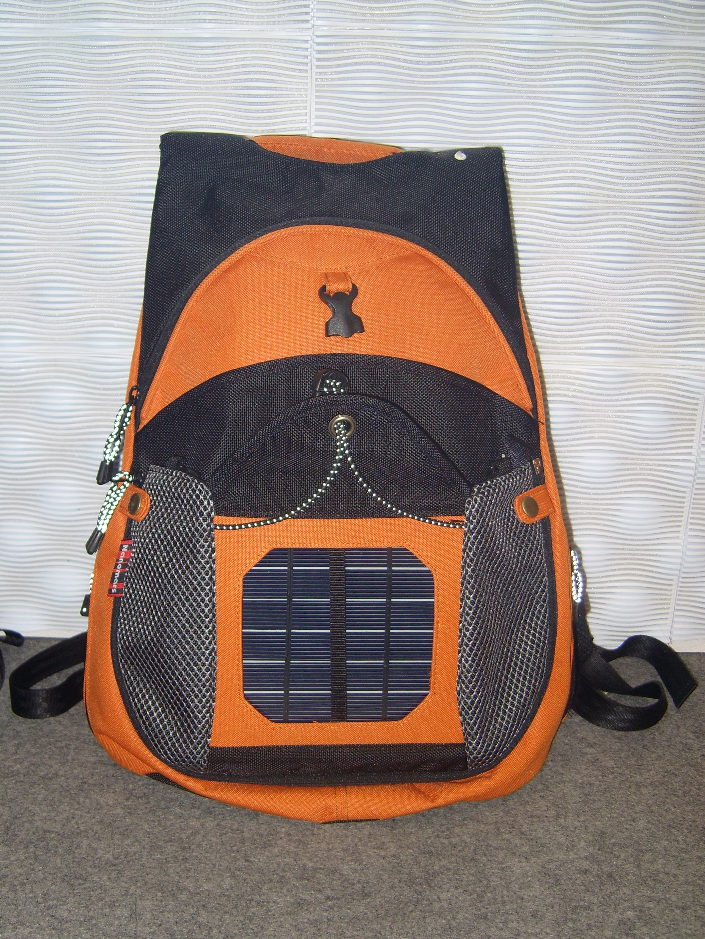 2008 Computex - Taiwan Design Innovation Pavilion: Duck Image - Vogue Solar Backpack.